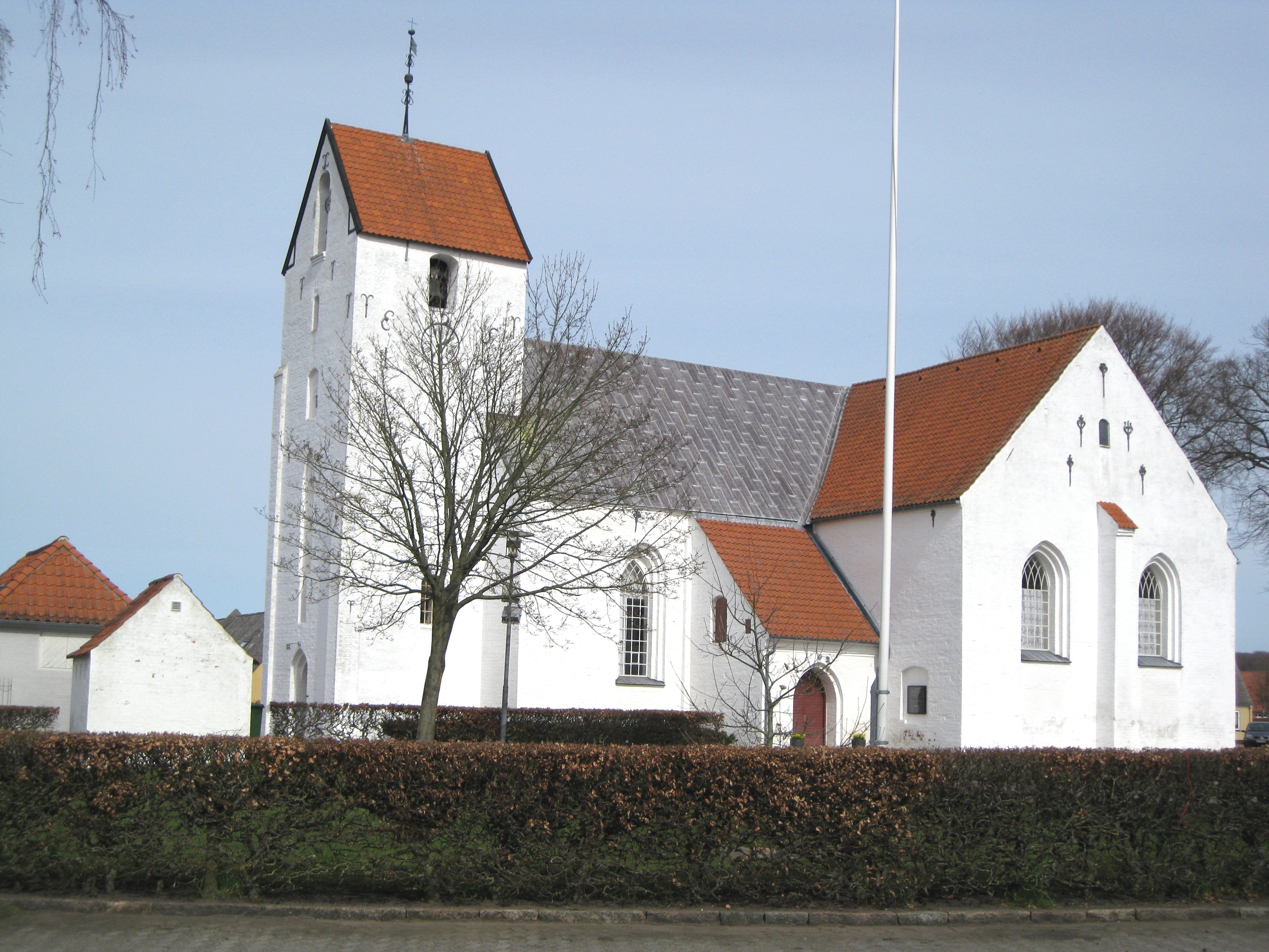 The church "Nibe Kirke" in the small town "Nibe". The town is located in North Jutland, Denmark.